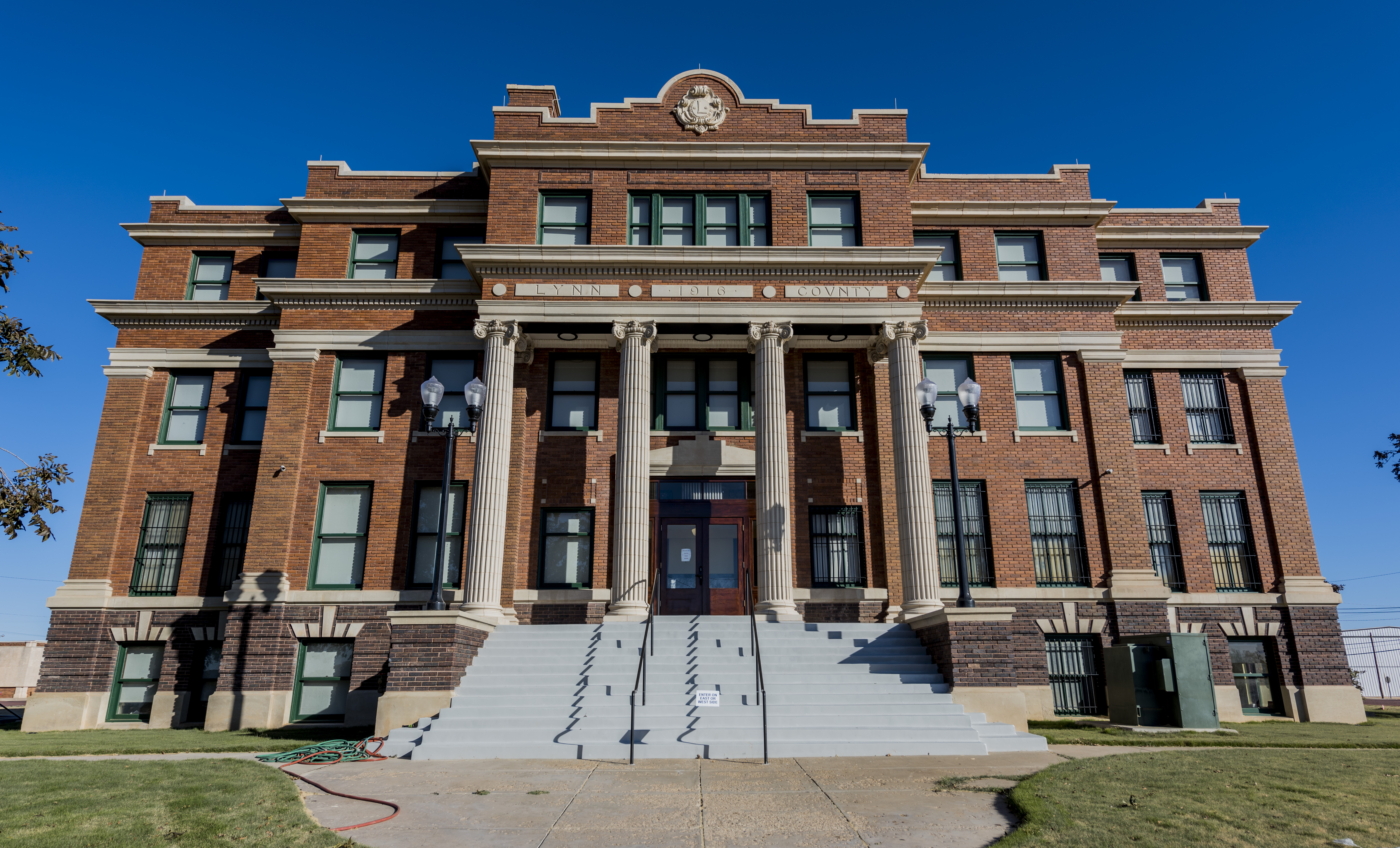 This is a photograph of the Lynn County, Texas courthouse taken in November 2019.